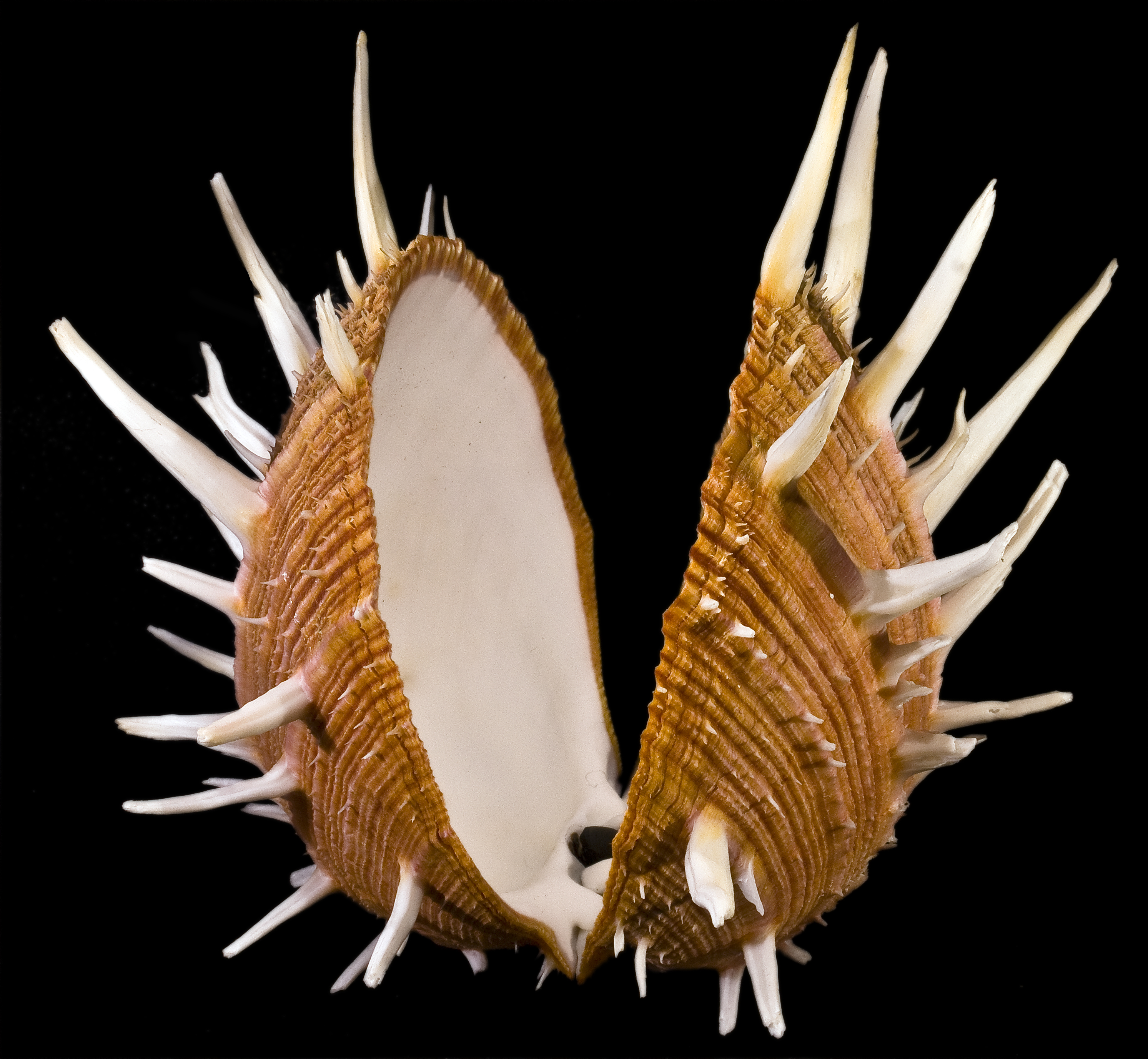 Spondylus regius - Royal or Regal Thorny Oyster - Spondylidae - Philippines - 16cm